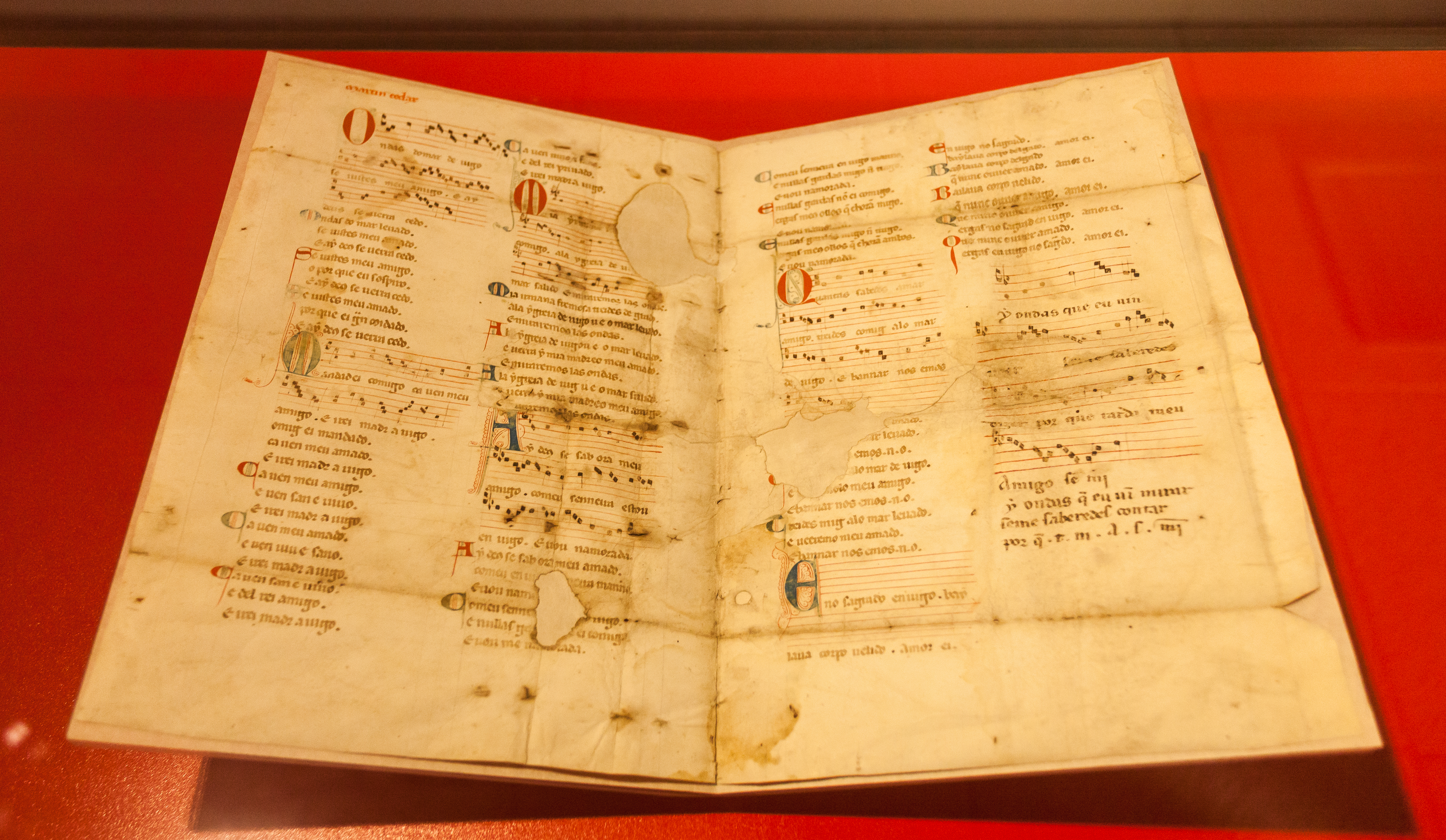 'Cantigas de Amigo' manuscript by Martin Codax, ~13th century